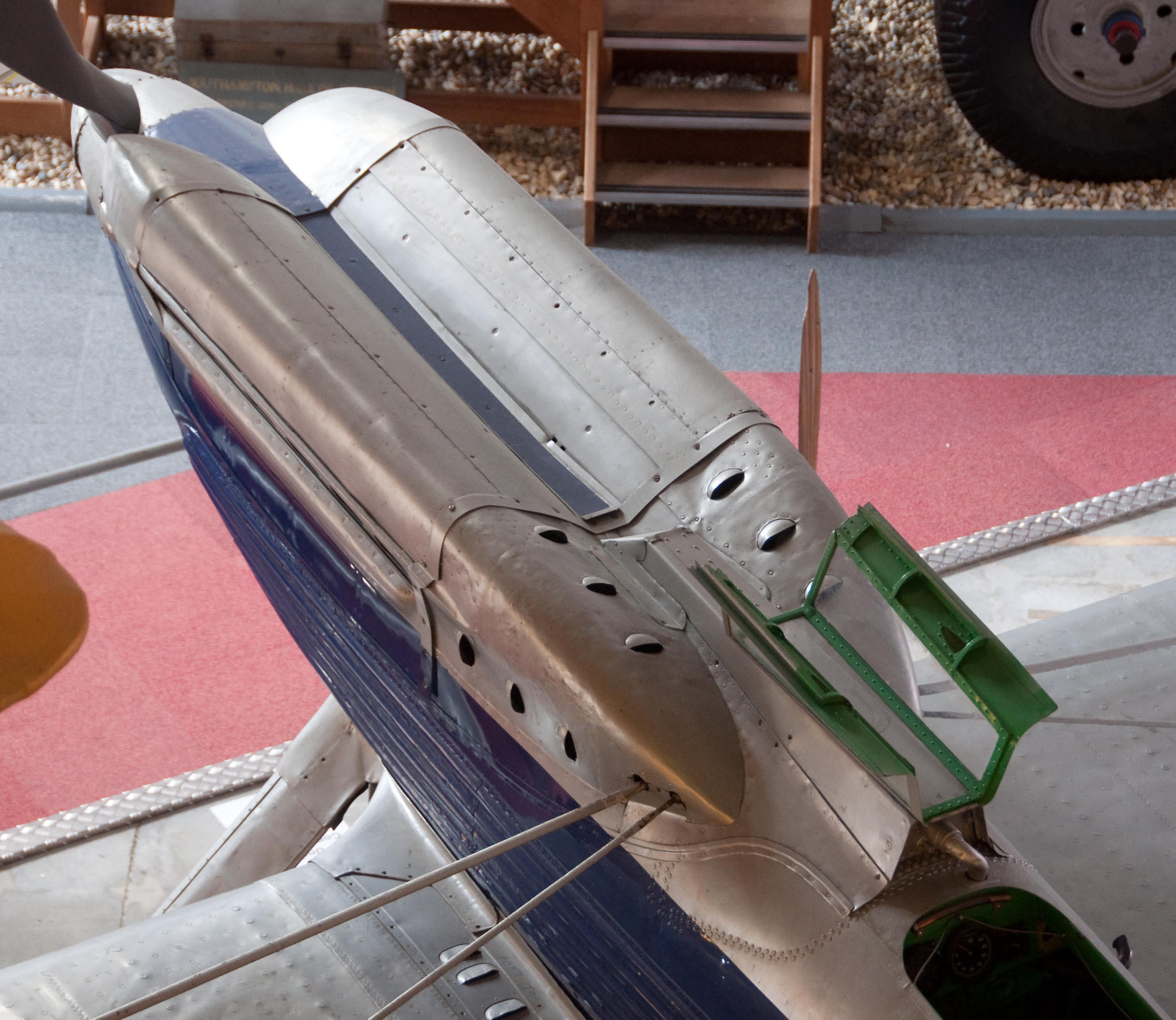 A view giving an indication of the extent of the pilot's forward vision